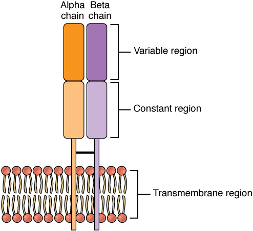 Illustration from Anatomy & Physiology, Connexions Web site. Jun 19, 2013.